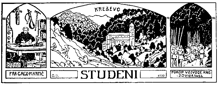 Croatian Catholic calendar in Bosnia and Herzegovina, 1930. Kreševo